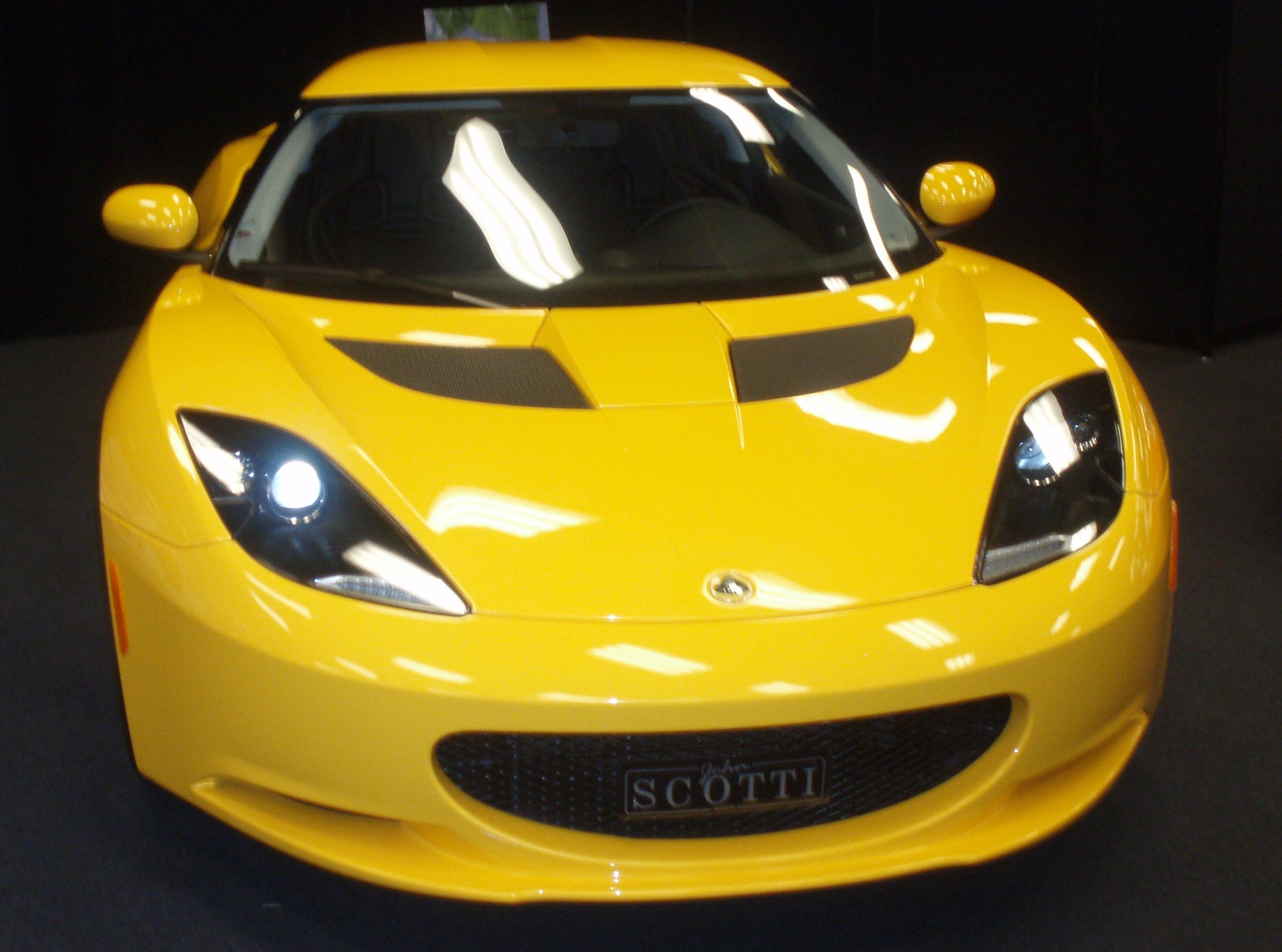 2011 Lotus Evora photographed in Montreal, Quebec, Canada at the 2011 Montreal International Auto Show.